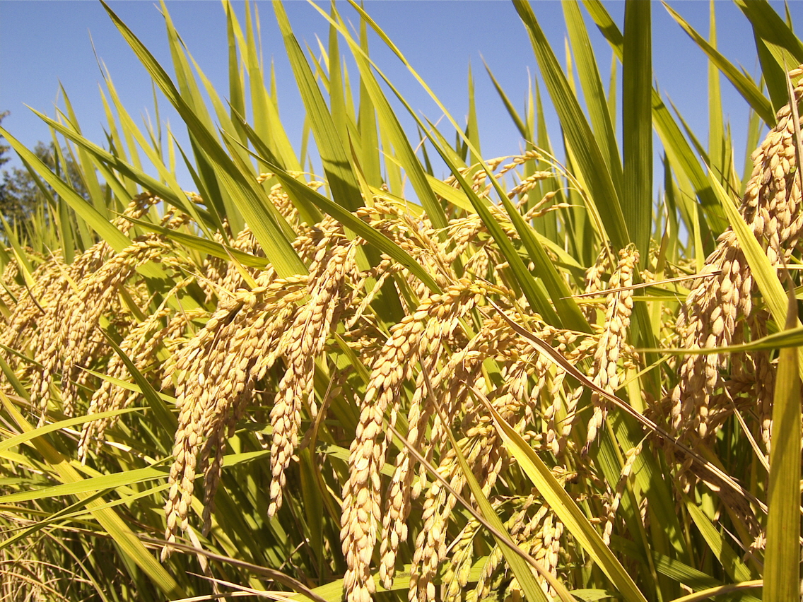 Mature rice panicle against blue sky. Part of the image collection of the International Rice Research Institute (IRRI) .